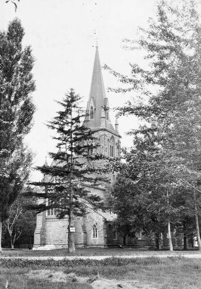 Christ Church Cathedral, Fredericton, New Brunswick, Canada. Constructed between 1845 and 1853.